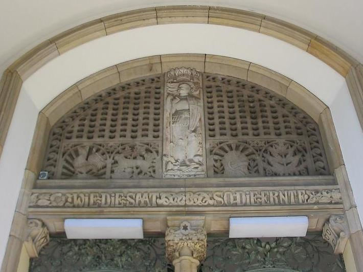 Portal „Friedrich-Bergius-Oberschule“ at the Perelsplatz in Berlin-Friedenau. Built between 1901 and 1903 according to plans by Paul Engelmann and Erich Blunck as „Gymnasium Friedenau“ (Gymnasium (school)).